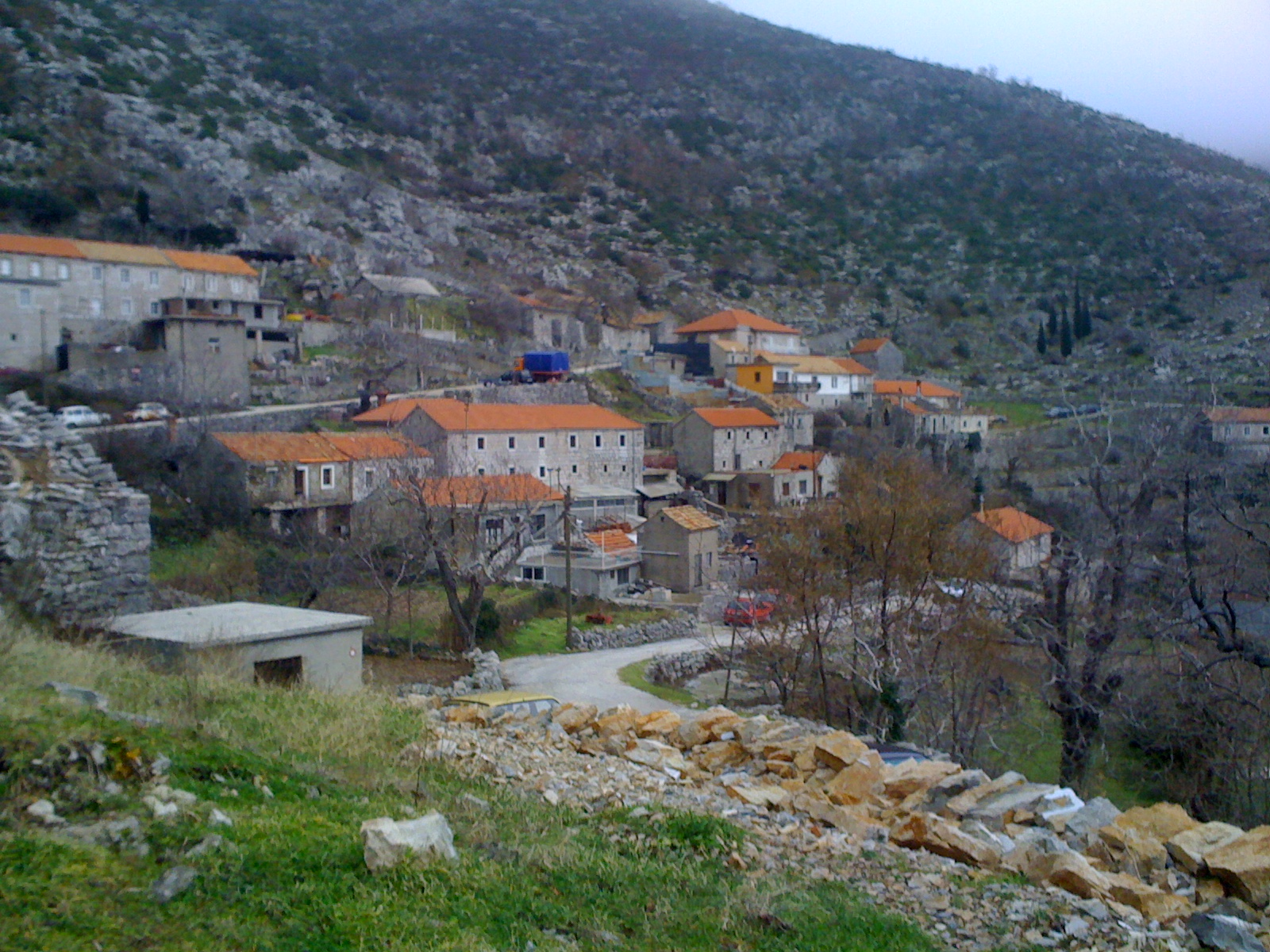 Kuna Konavoska